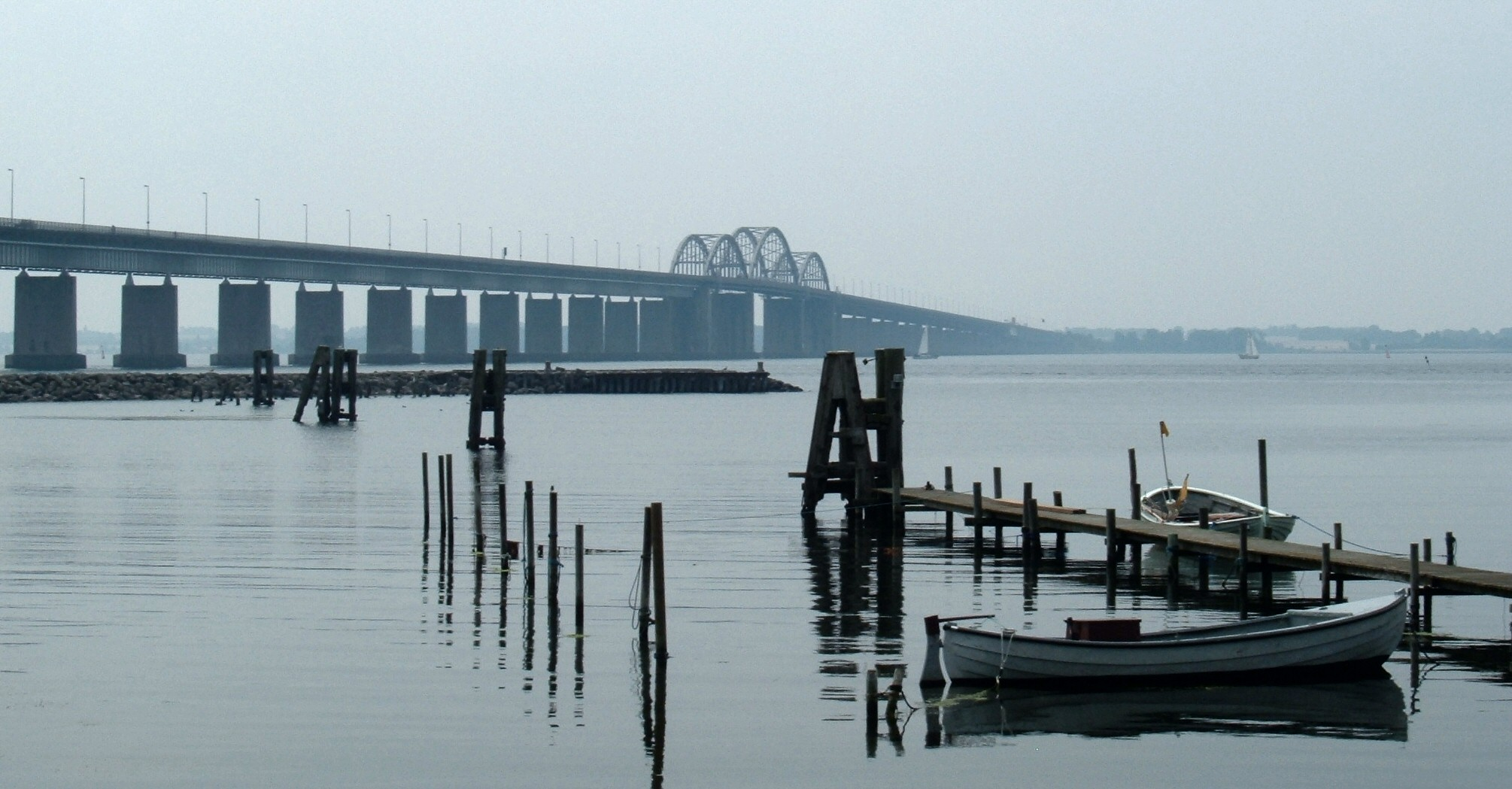 Storstrøm bridge connecting the island of Masnedø with the larger island of Falster in south east Denmark. From Masnedø, the Masnedsund bridge continues to Zealand. View of bridge from Masnedø shore. Taken by contributor, July 2006.